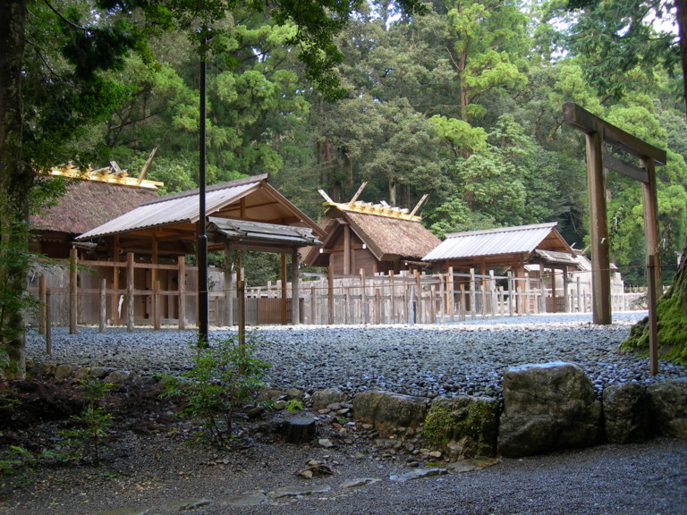 The Betsugu Takihara-no-miya Sanctuary of Kotaijingu(Naiku) at Taiki town Mie Prf. Japan.